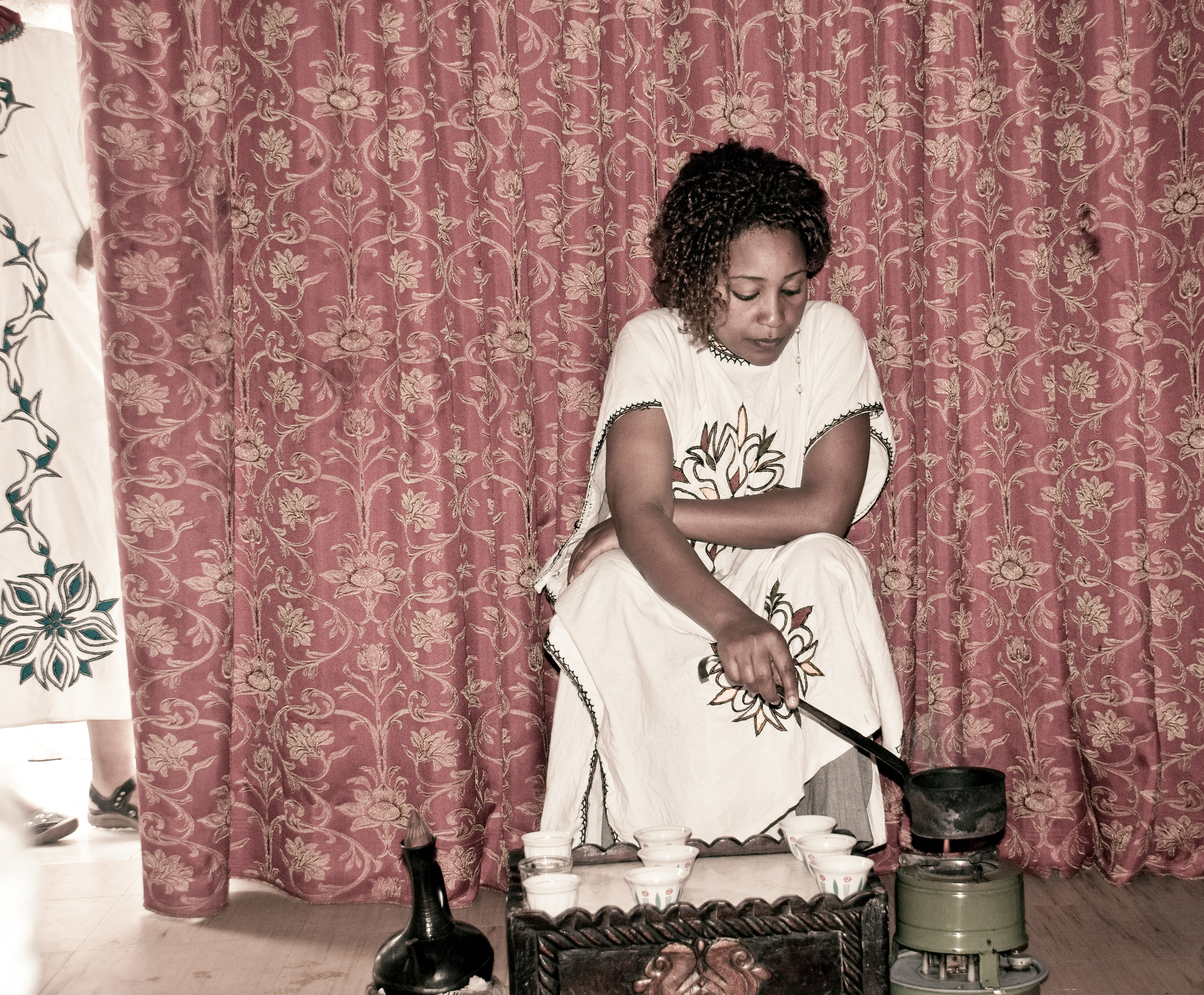 Ethiopian coffee ceremony, conducted by a young woman, dressed in the traditional Ethiopian white dress with coloured woven borders ('habesha qemis'). Freshly ground coffee is slowly stirred into the black clay coffee pot - 'jebena'. After it is ready, the coffee is strained through a fine sieve several times and served in tiny china cups.